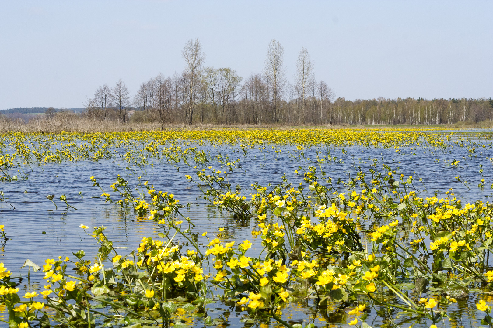 Spring backwaters of Narew and marsh-marigolds Caltha palustris. Łomża Landscape Park of the Narew Valley, north-eastern Poland. This is a photography of protected area with CRFOP ID PL.ZIPOP.1393.PK.74